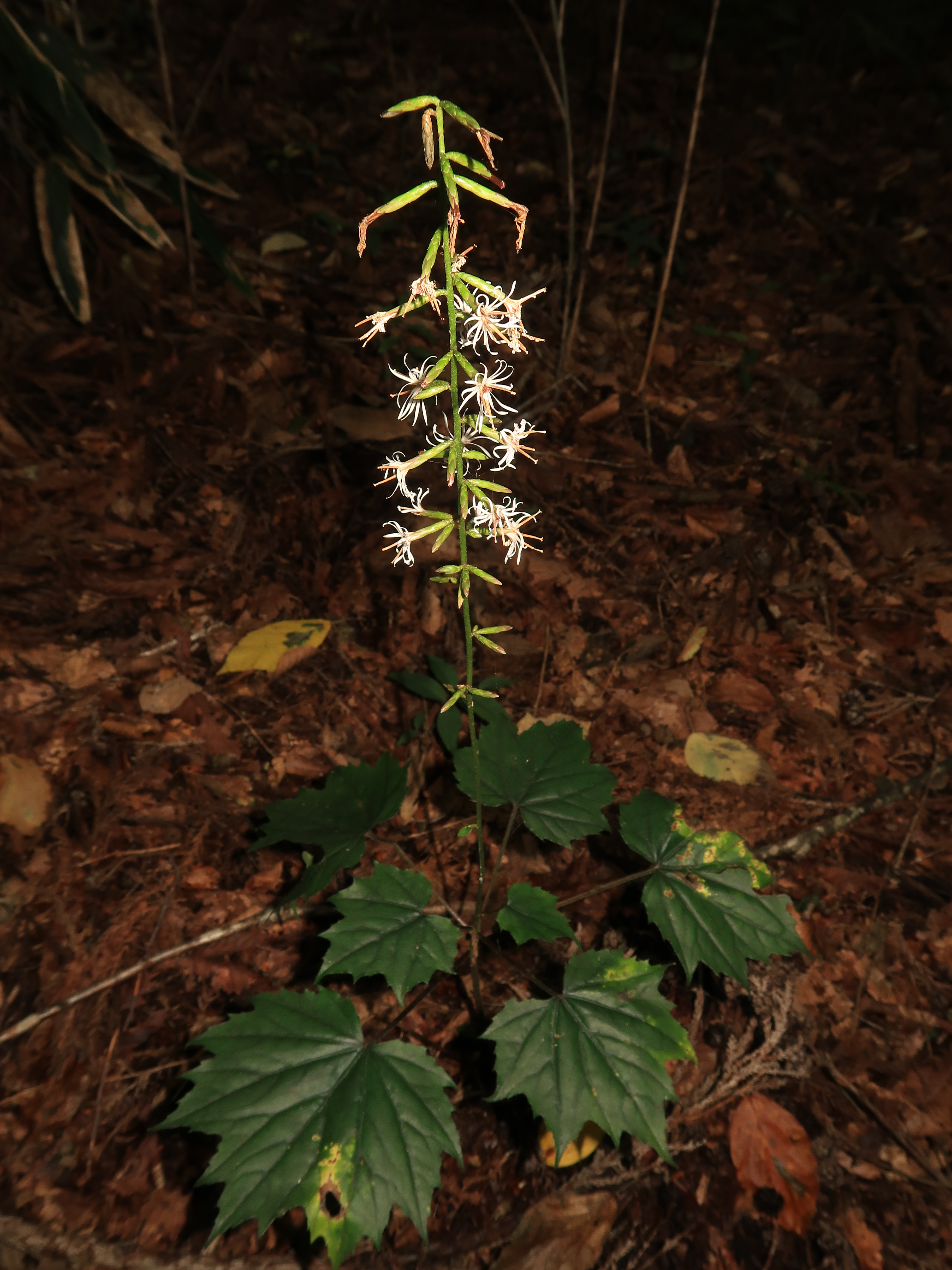 Ainsliaea acerifolia var. subapoda, North area, Ibaraki pref., Japan